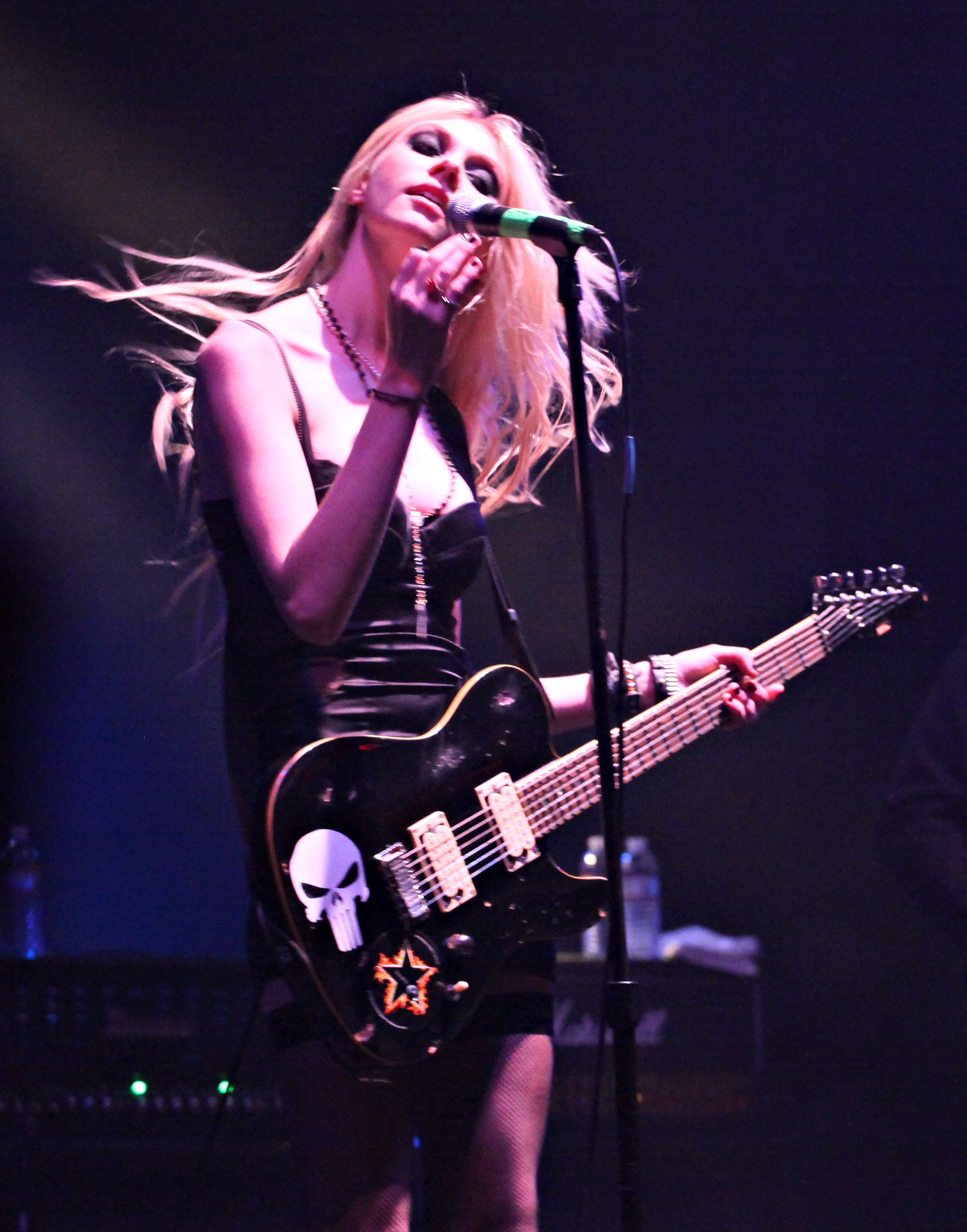 Taylor Momsen live on Warped Tour Kickoff.